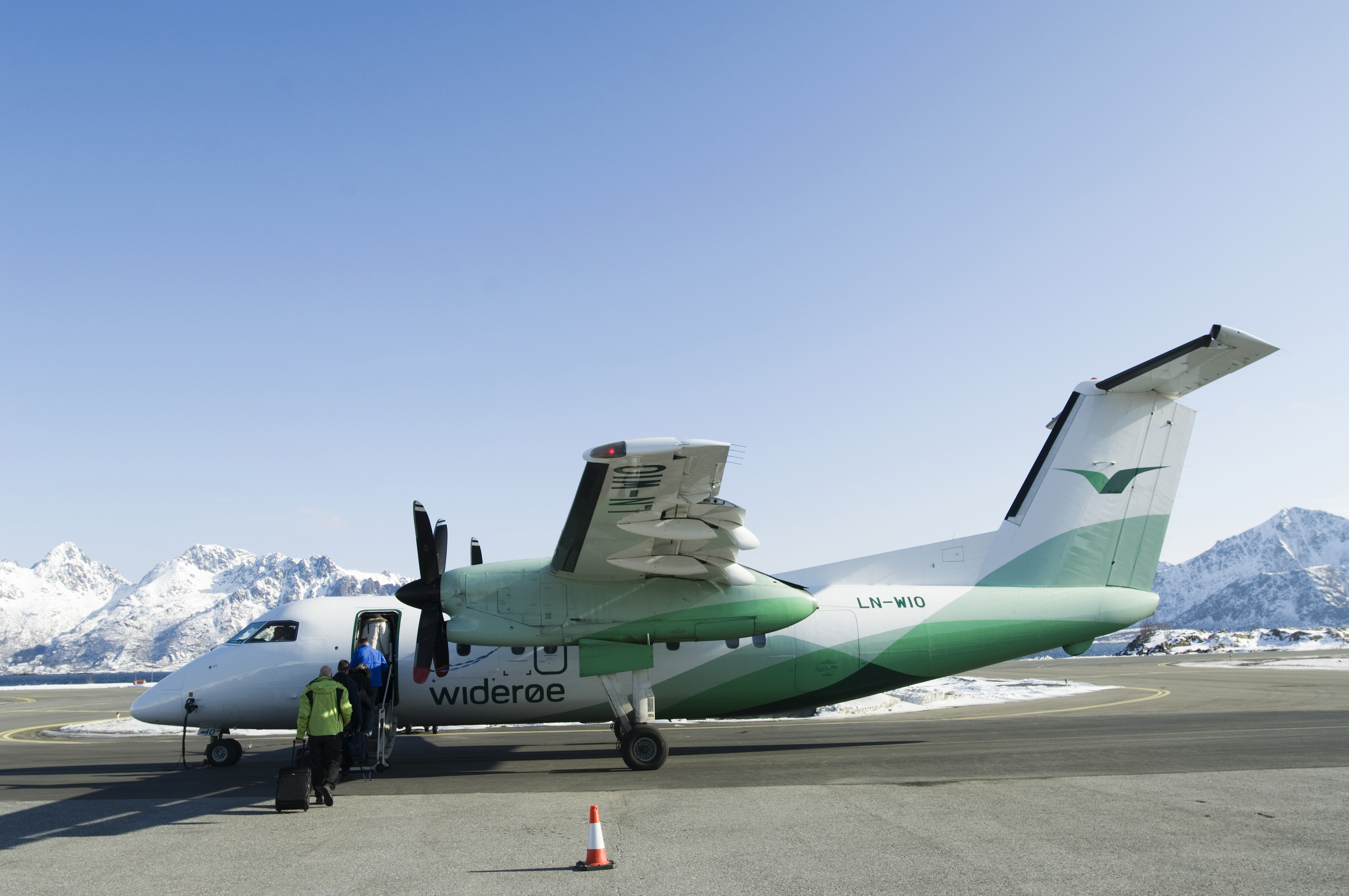 Widerøe Dash 8-102 LN-WIO